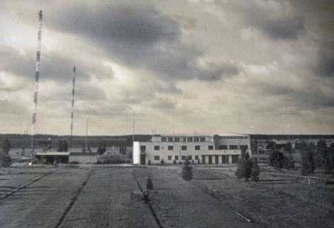 Shortwave radio station of Finnish Broadcasting Company YLE in Pori, Finland. Completed 1939, in function 1948-1987. Design by architect Hugo Harmia.